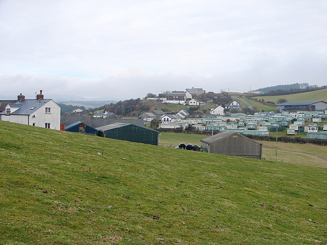 Caravans at Penygraig, upper Borth Viewed from the coastal path.